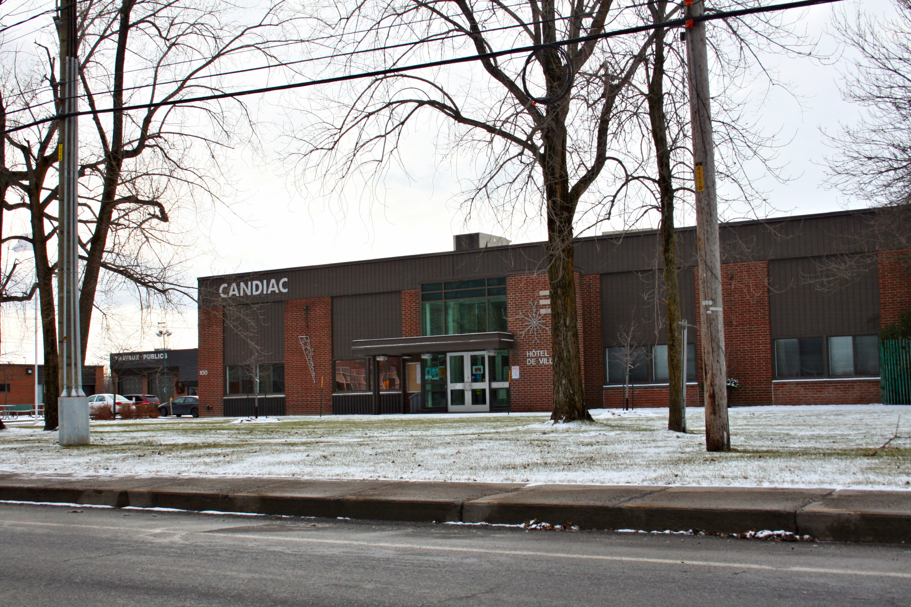 Town hall of Candiac, Quebec, Canada